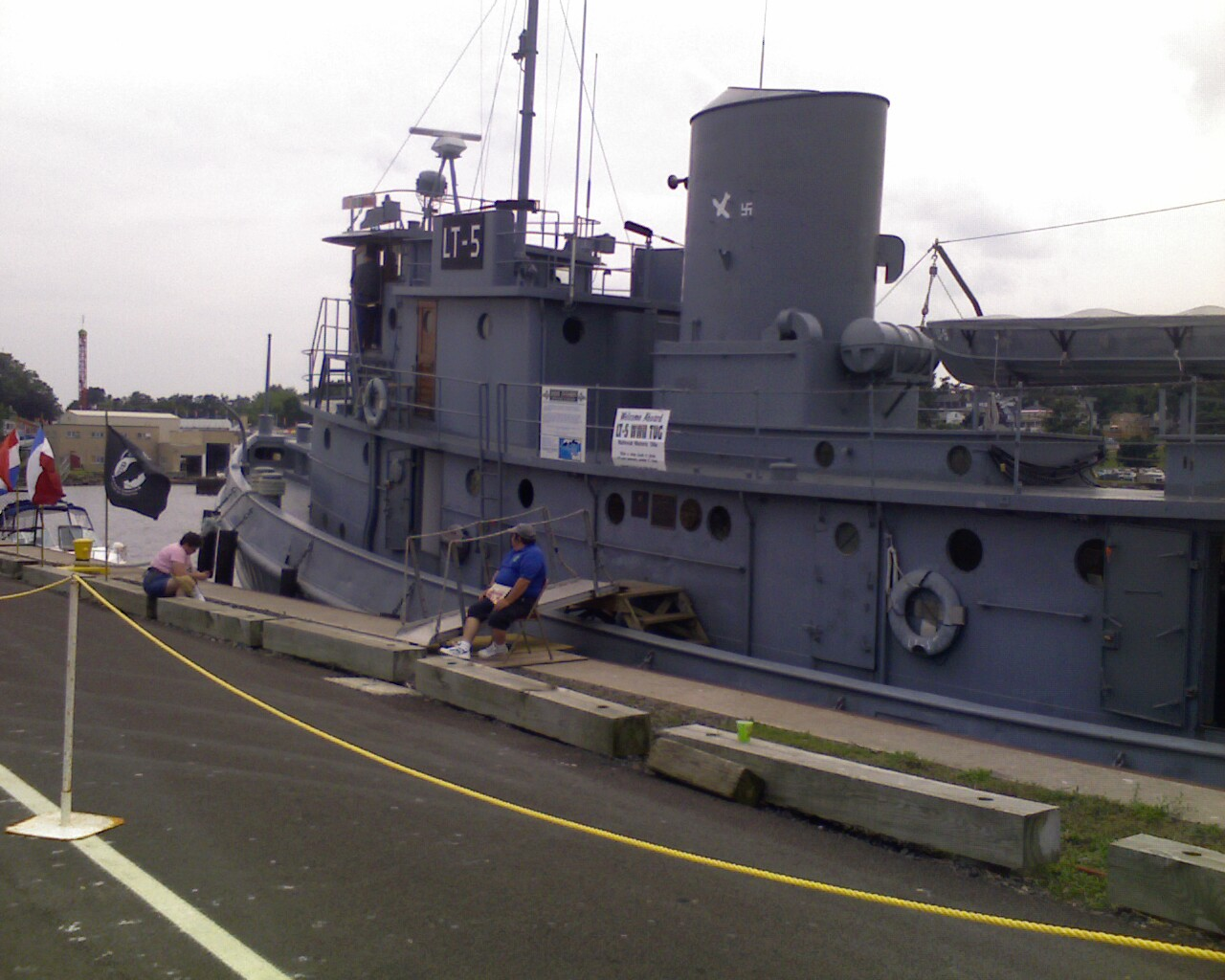 Nash Tugboat, Oswego harbor